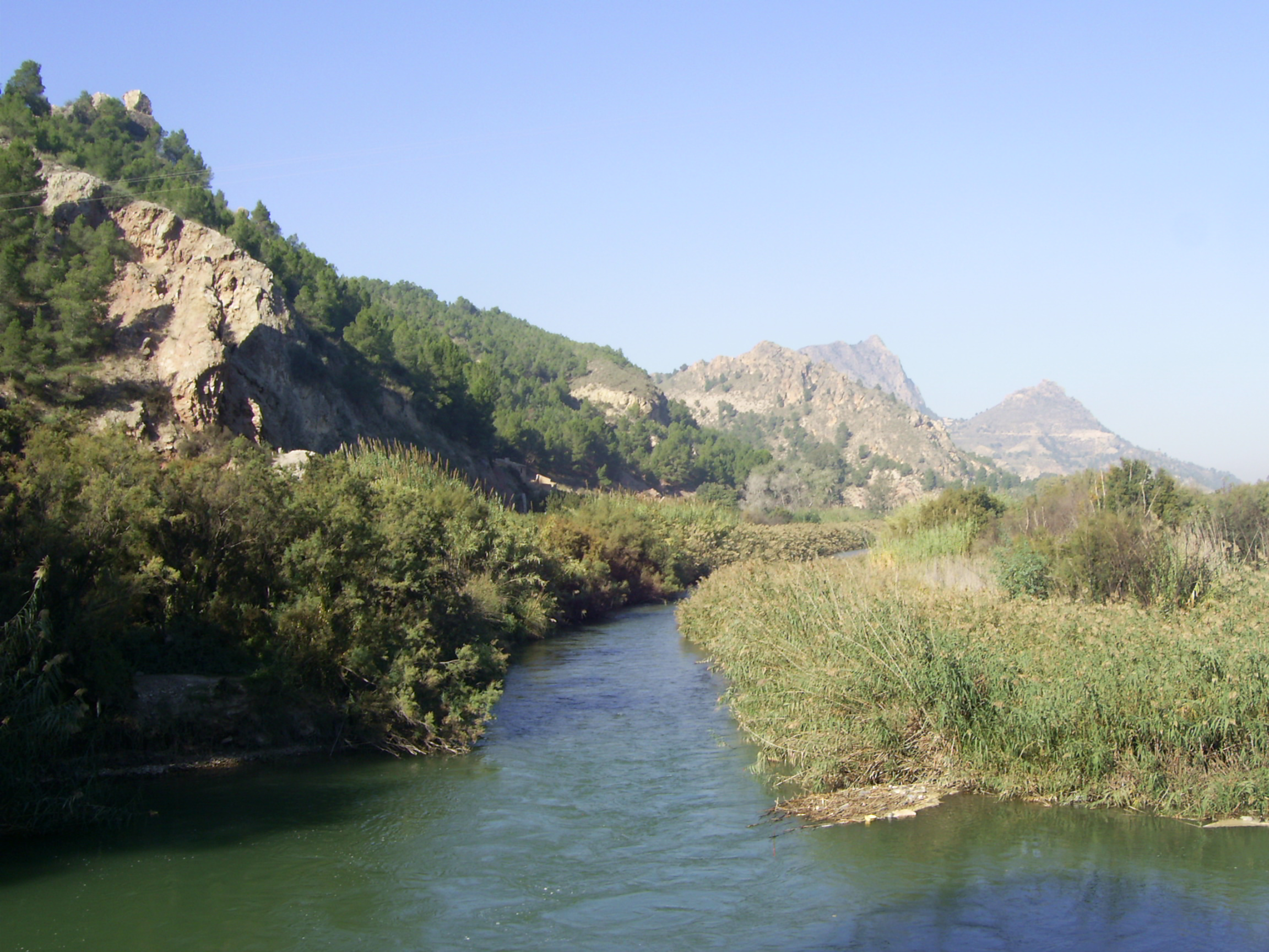 River Segura near Abaran - Murcia - Spain